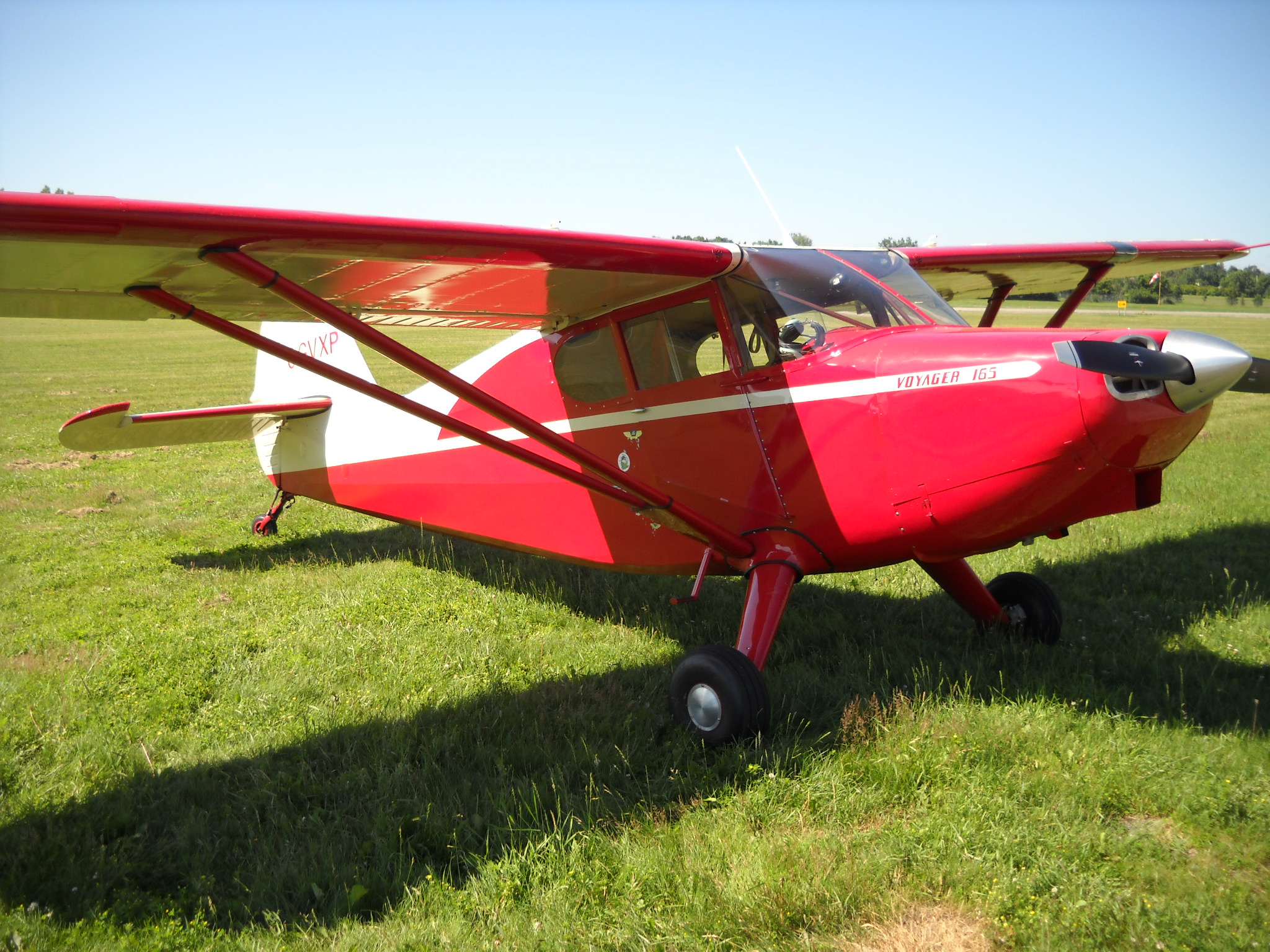 Stinson 108-1 at Rockcliffe Airport, Ottawa, Ontario, Canada.